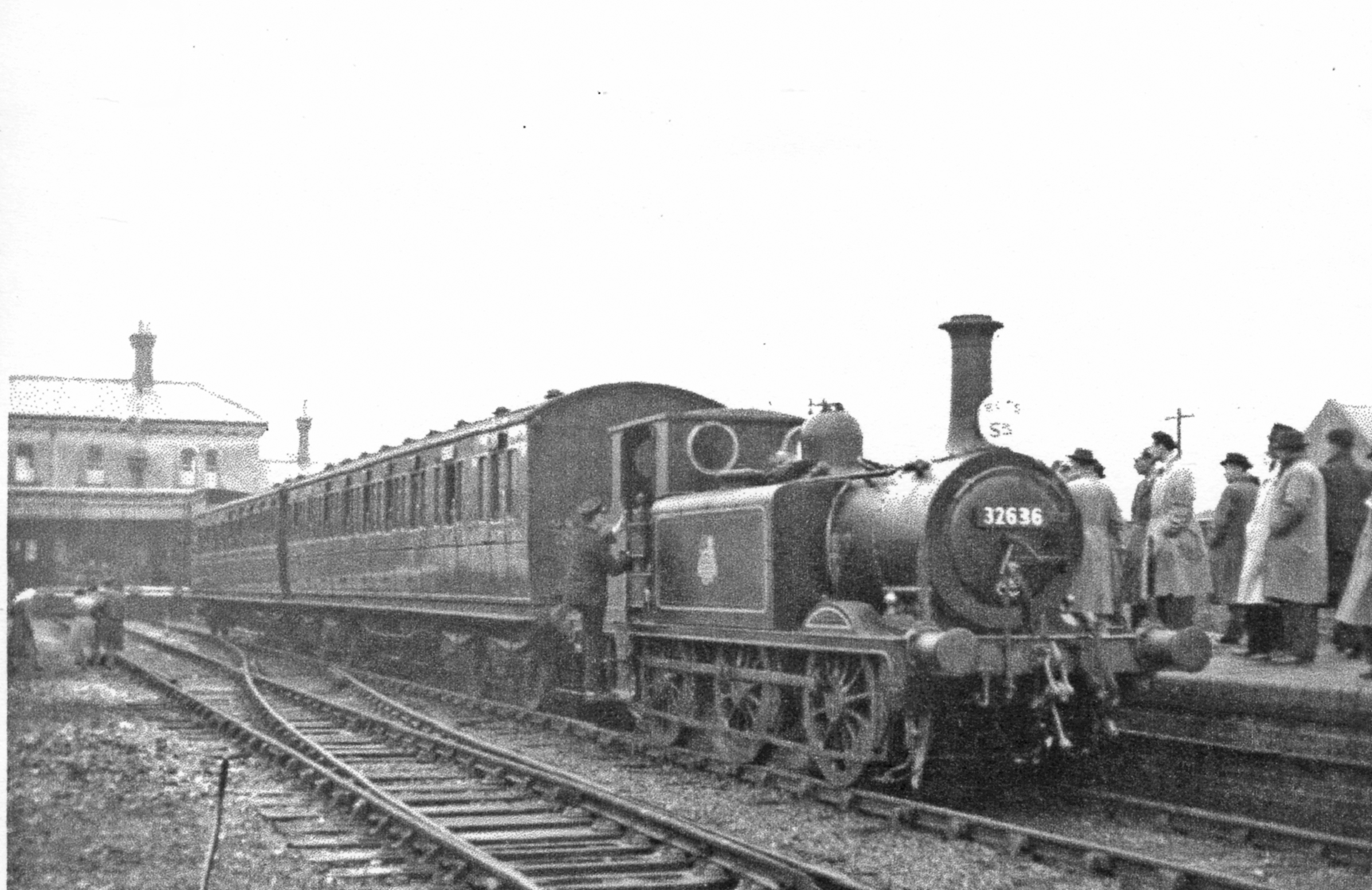 RCTS Rail Tour at the former Kemp Town station, 1952View towards the buffer-stops at the station at the end of a short branch from Brighton, which had not seen a regular passenger service since 2/1/33 although goods trains worked in until 14/6/71: the site has subsequently been thoroughly built over. This Rail Tour of October 1952 was headed by ex-LB&SCR Stroudley class A1X 'Terrier' 0-6-0T BR No. 32636, which eventually became No. 72 'Fenchurch' on the Bluebell Railway.